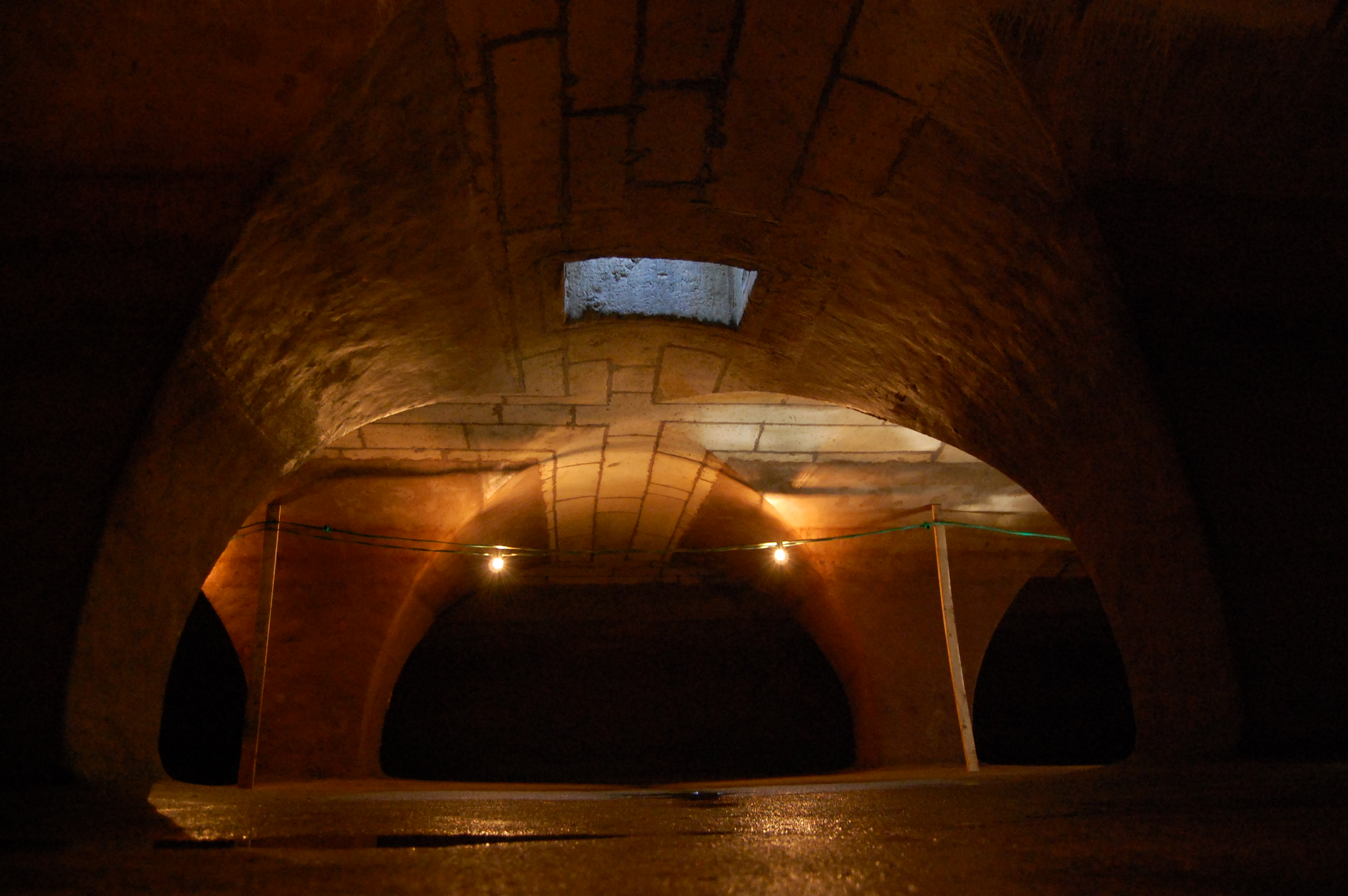 Inside of the water tanks of the palace of Versailles, used to feed the fountains.